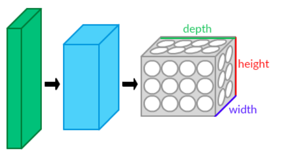 CNN layers arranged in 3-D volumes